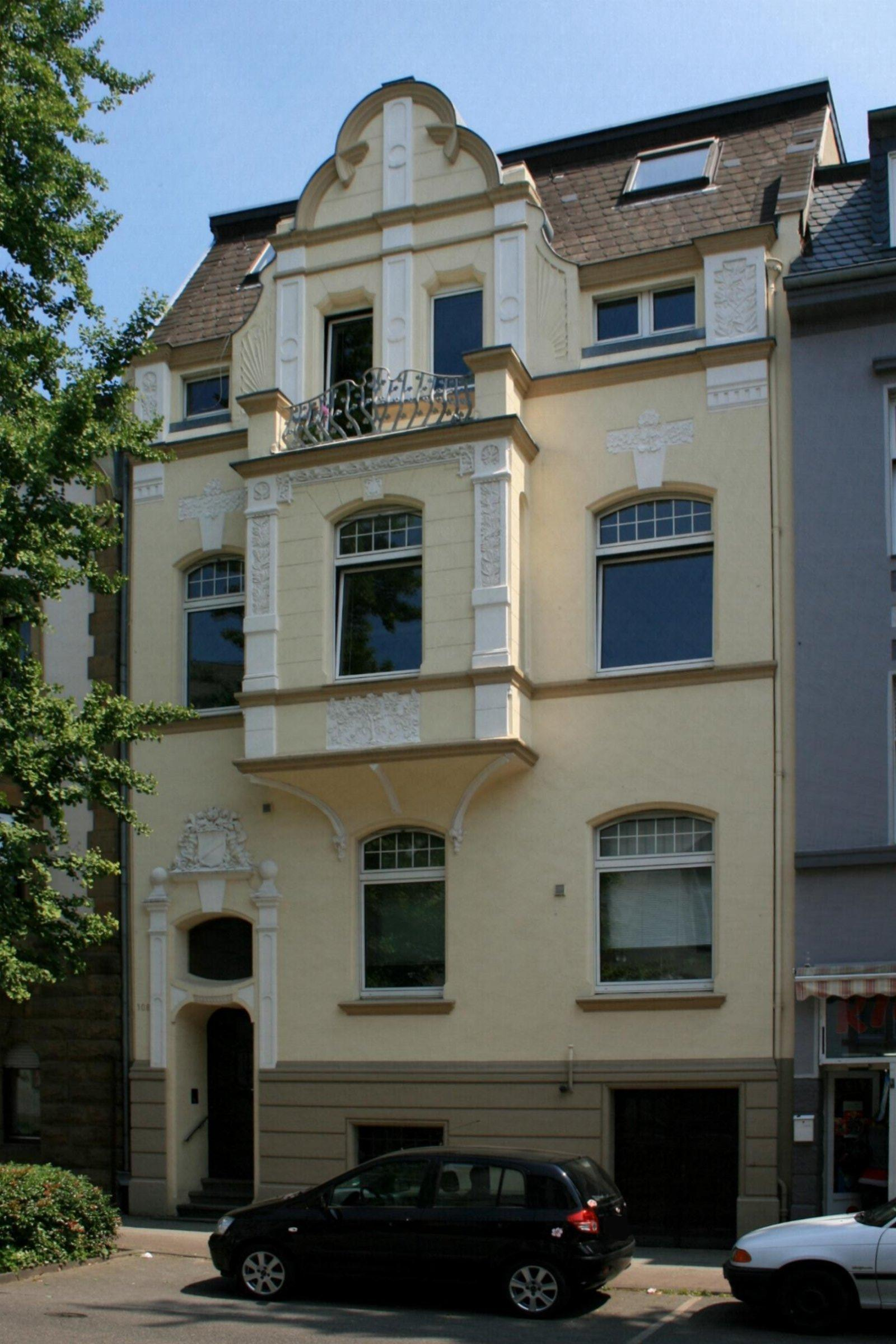 Cultural heritage monument No. B 078 in Mönchengladbach